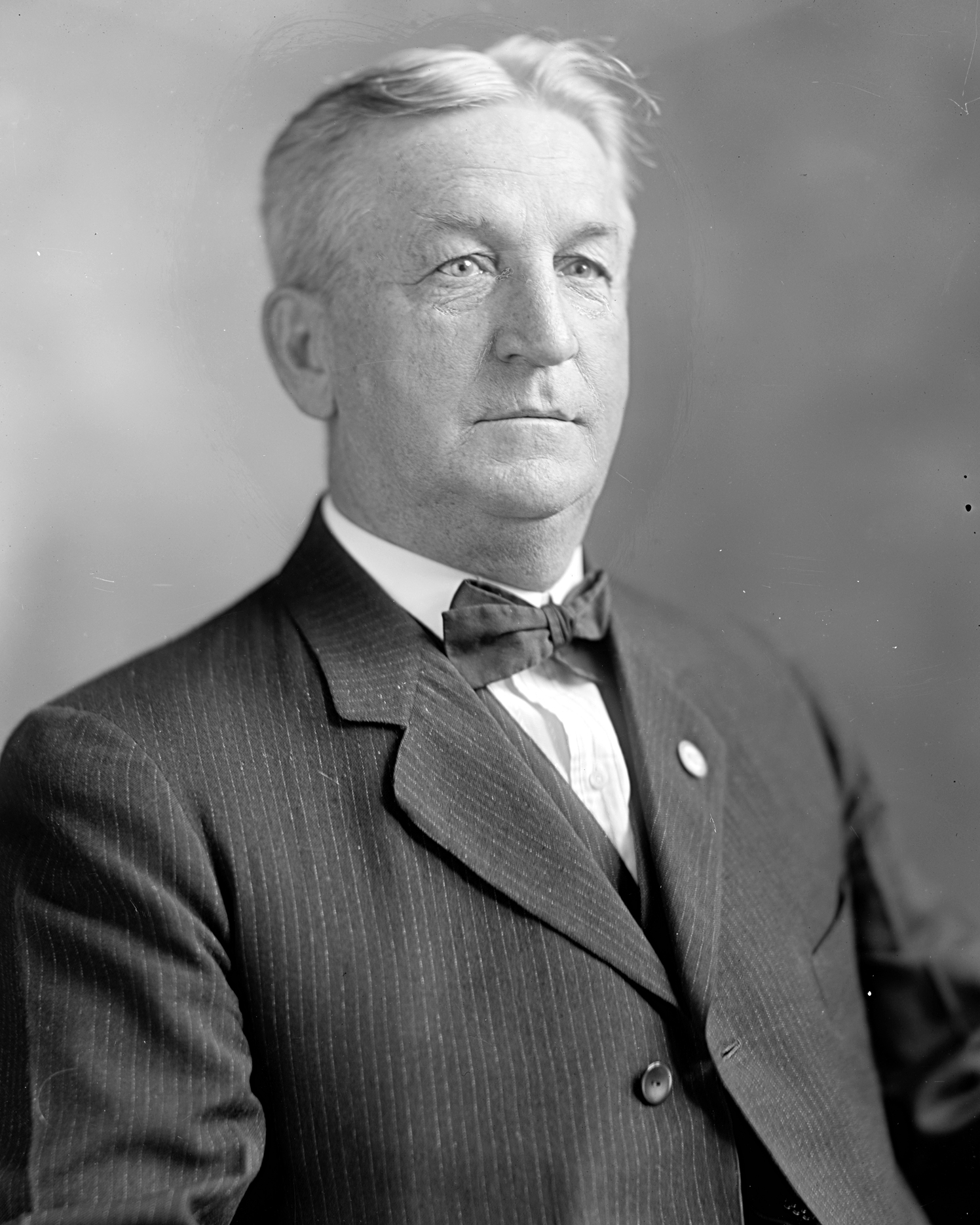 John Reber, US Representative from Pennsylvania